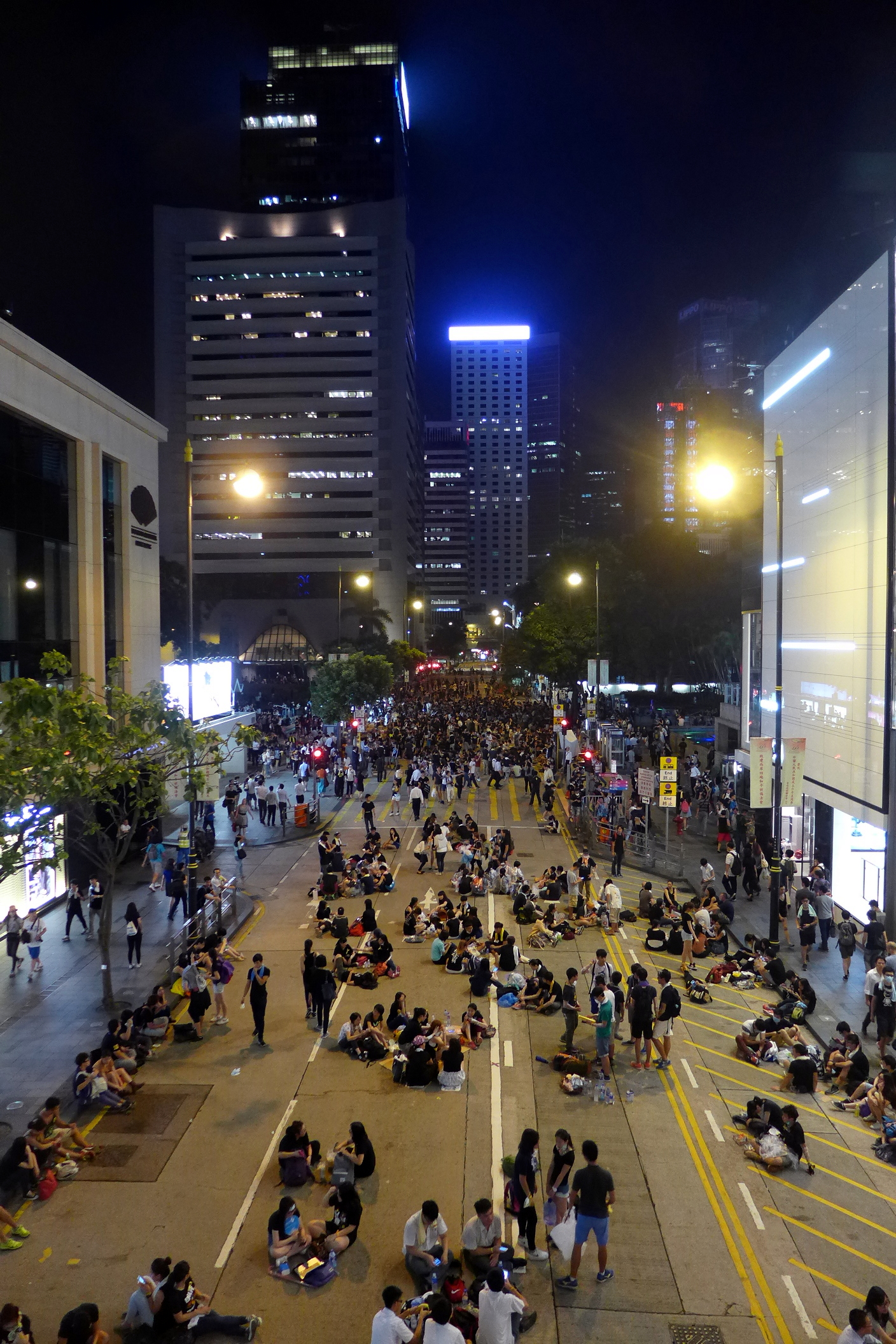 Occupy Central Protesters in Charter Road